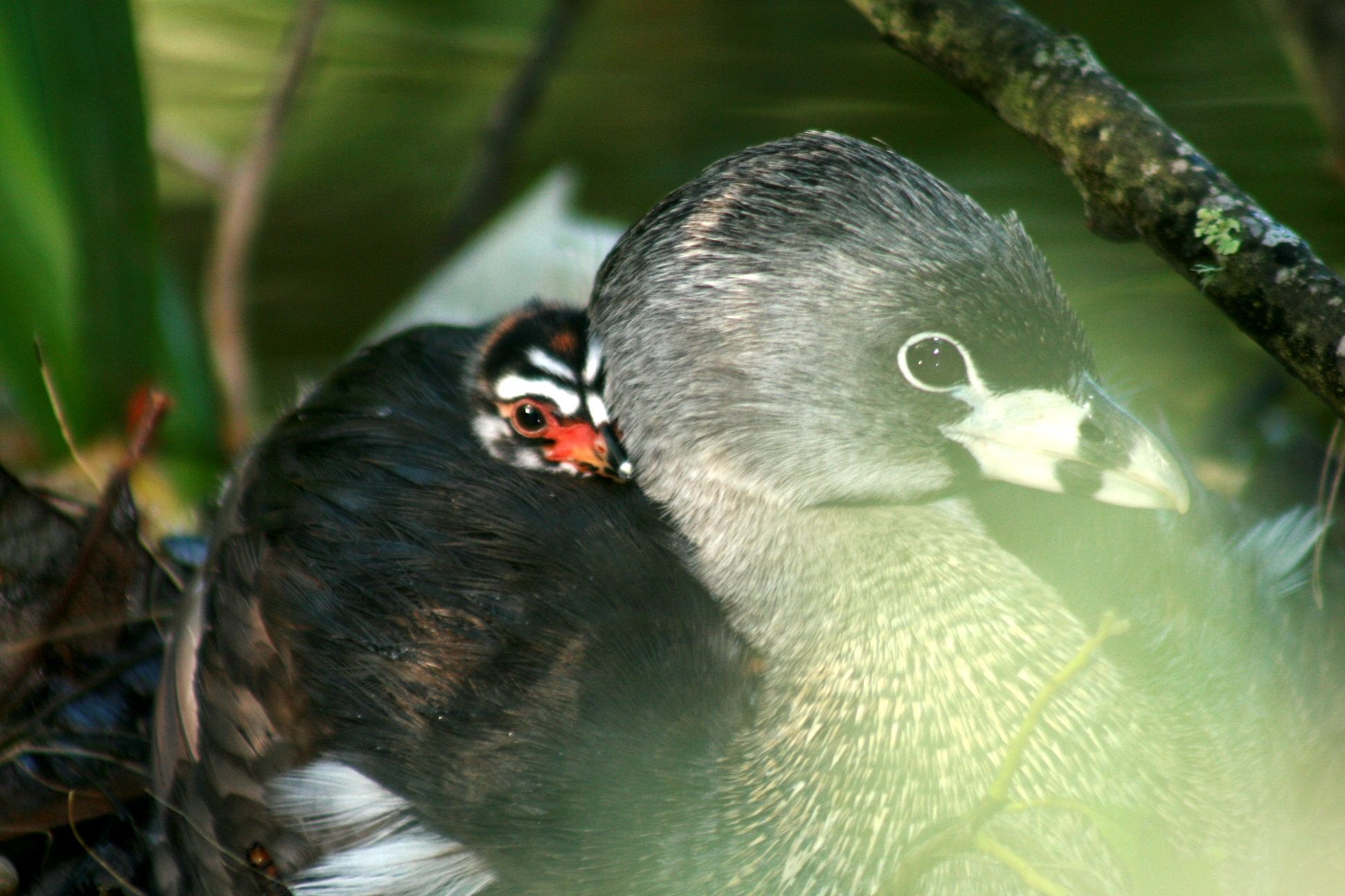 Pied billed Grebe with chicks